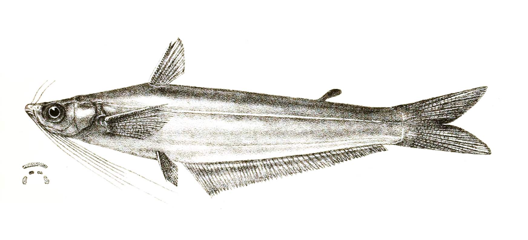 Proeutropiichthys taakree. The original plates showed the fishes facing right and have been flipped here. Pseudotropius taakree